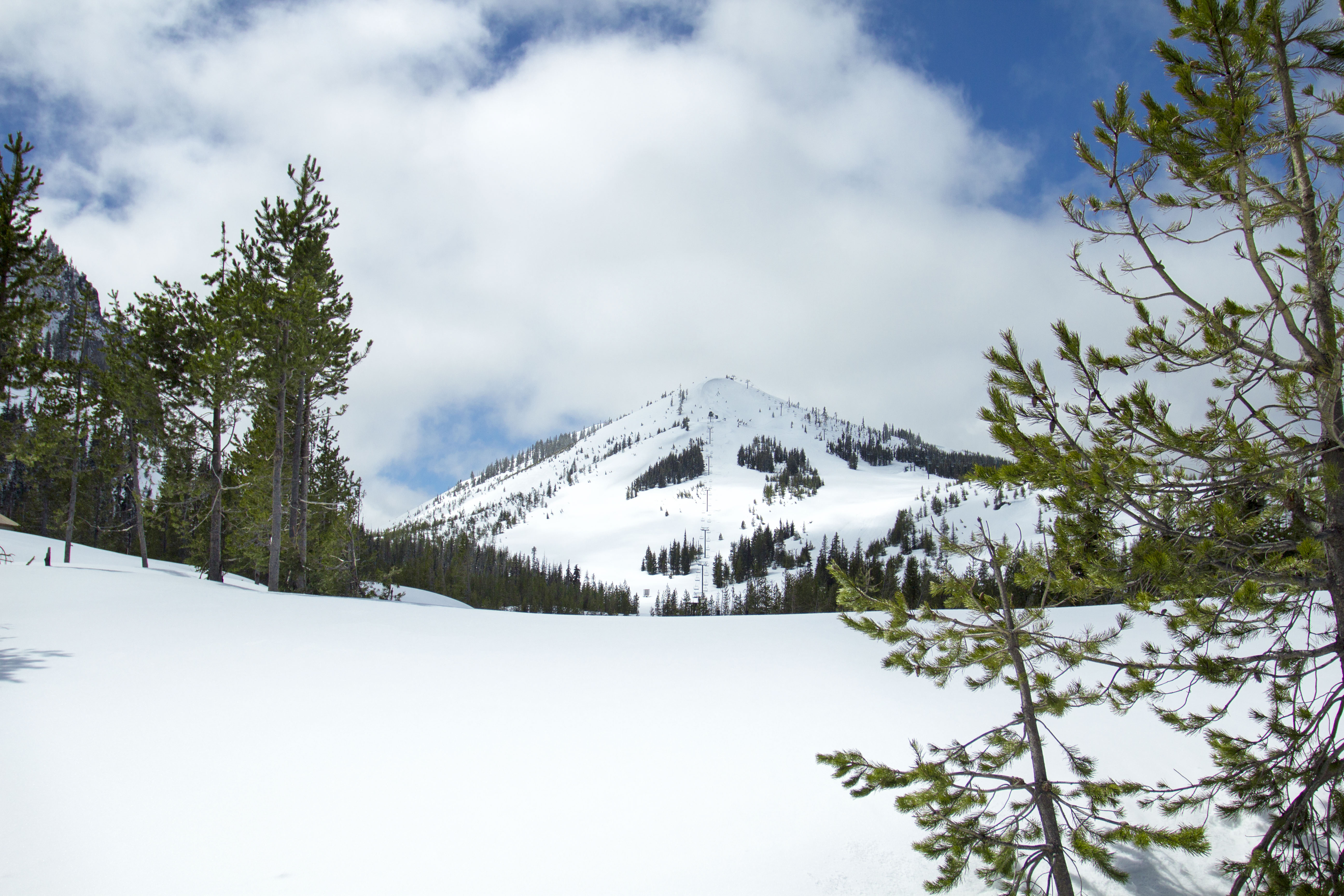 Hoodoo Butte in Oregon is located in the Cascade Range in Oregon. It is home to a ski area in the winter and hiking in the summer.